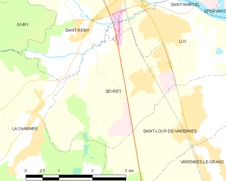 Map of French municipality